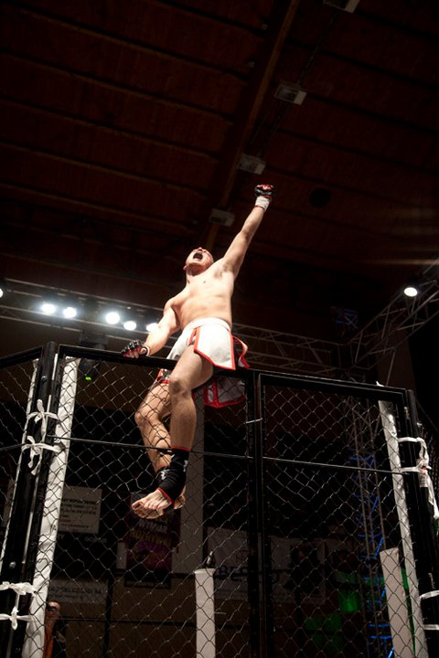 Sikoński Maciej winning